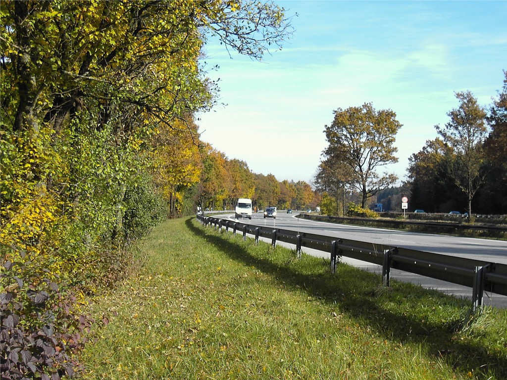 A 95 in Forstenrieder Park, Munich, Bavaria, Germany